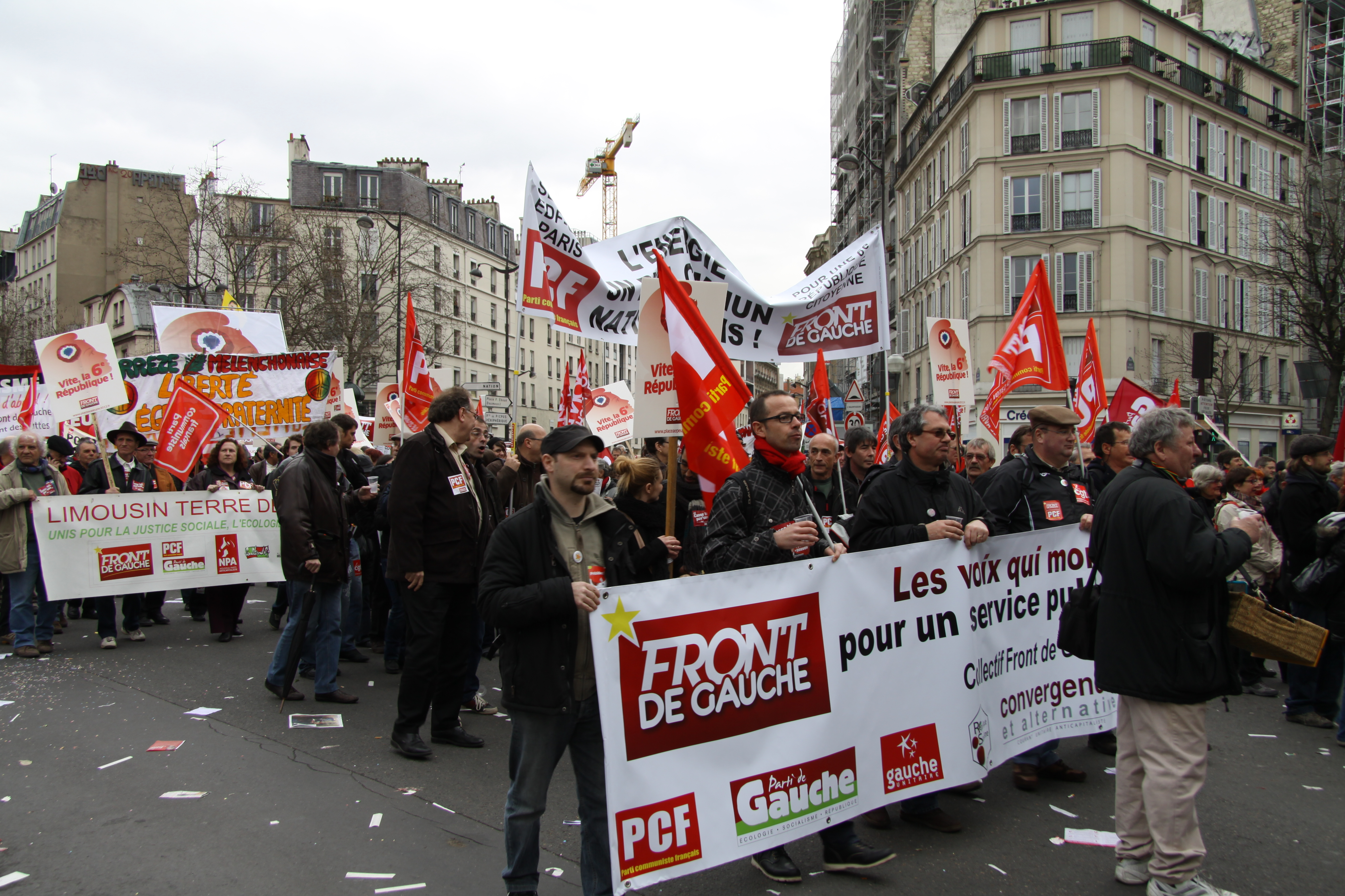 French Communist Party's meeting for the 2012 French presidential election, Paris, France